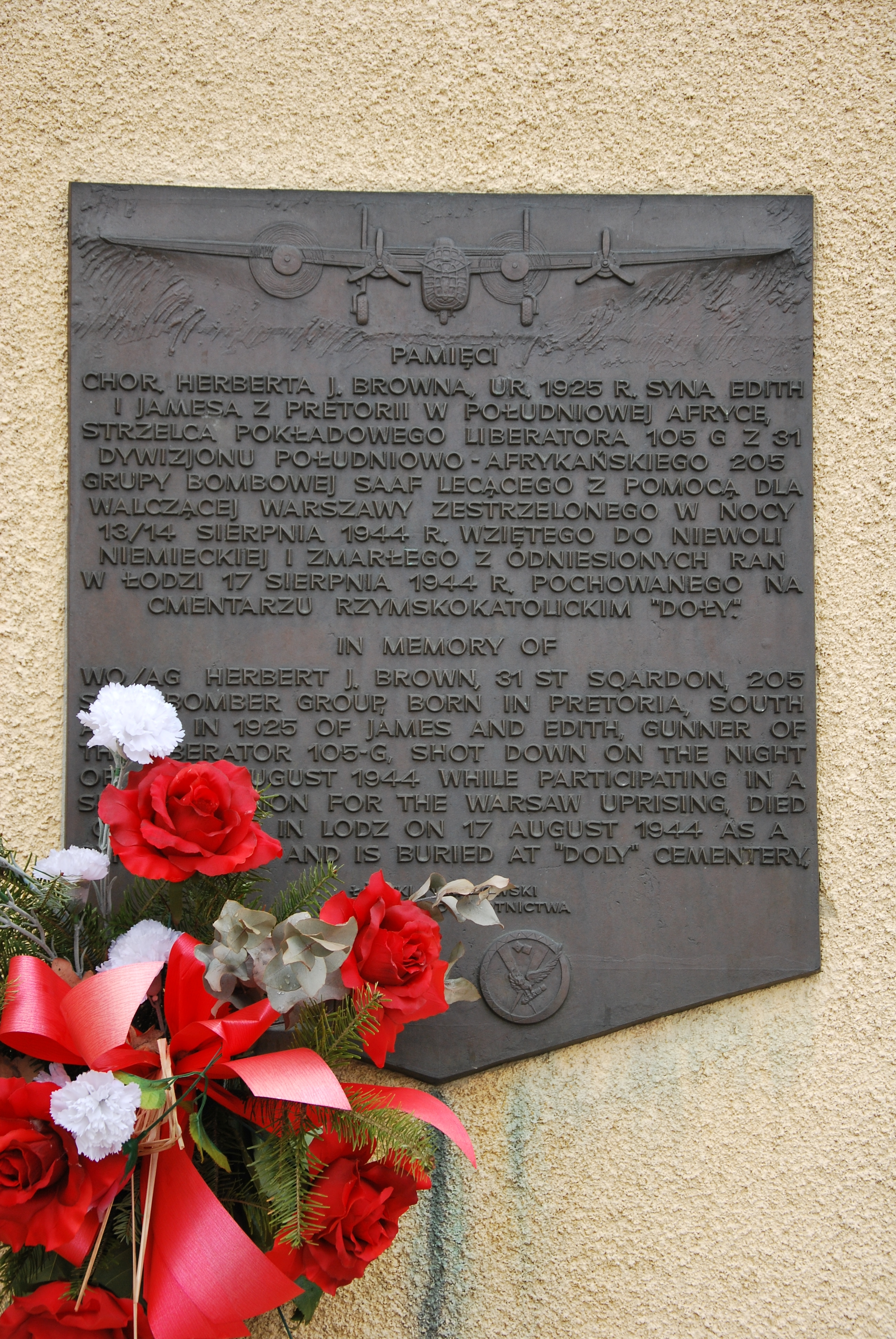 Plaque to south african flyer shot down in 2nd WW, Łódź Doły Cemetery